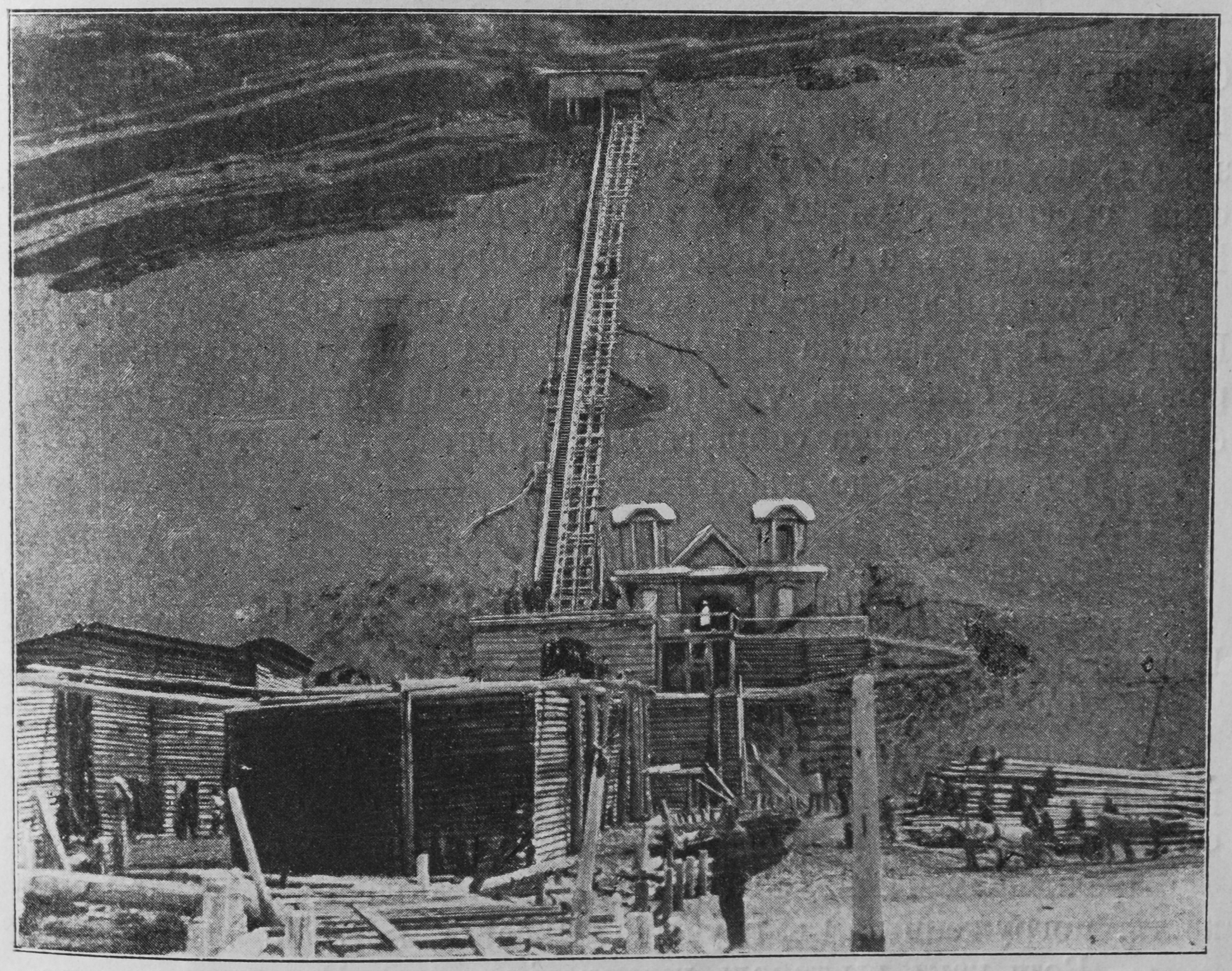 Old mine in Due